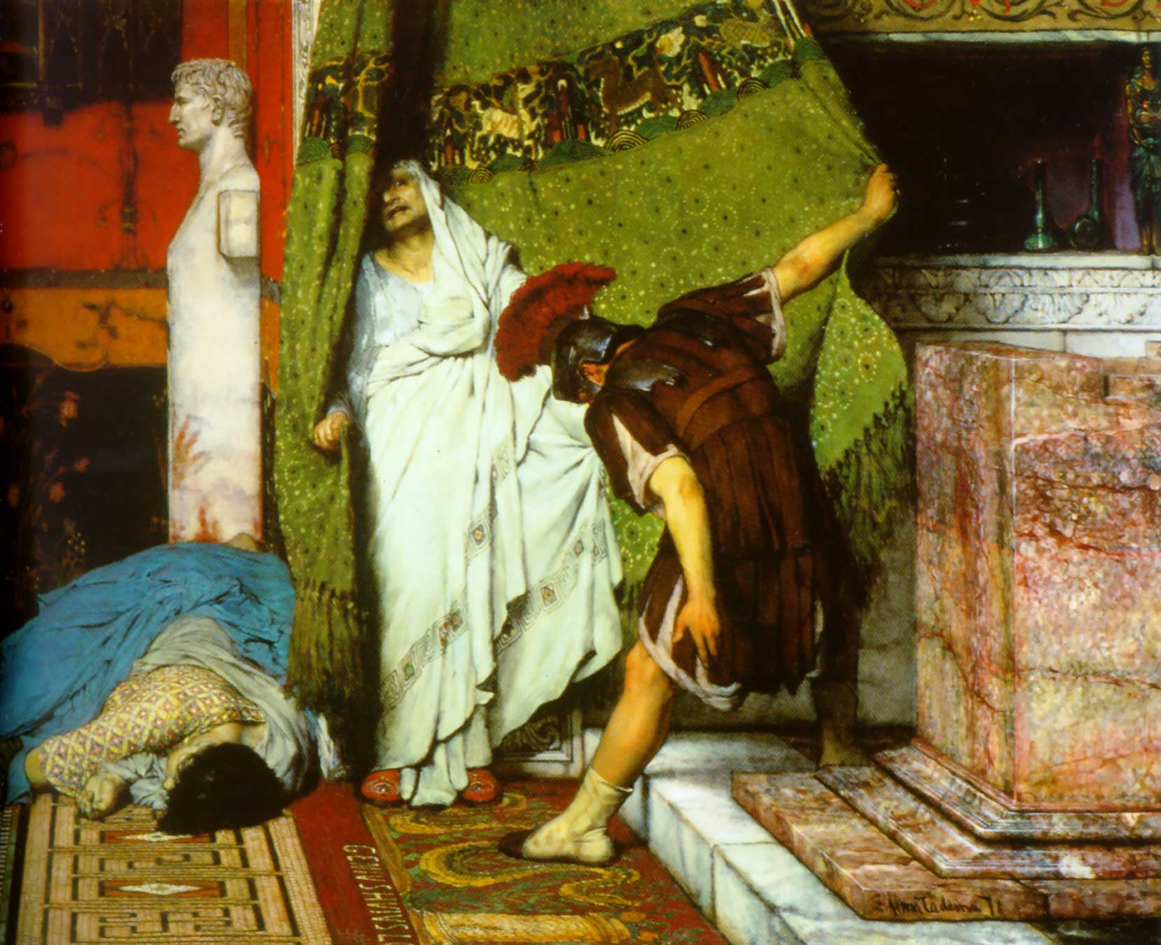 Detail from the painting A Roman Emperor 41AD by Lawrence Alma-Tadema